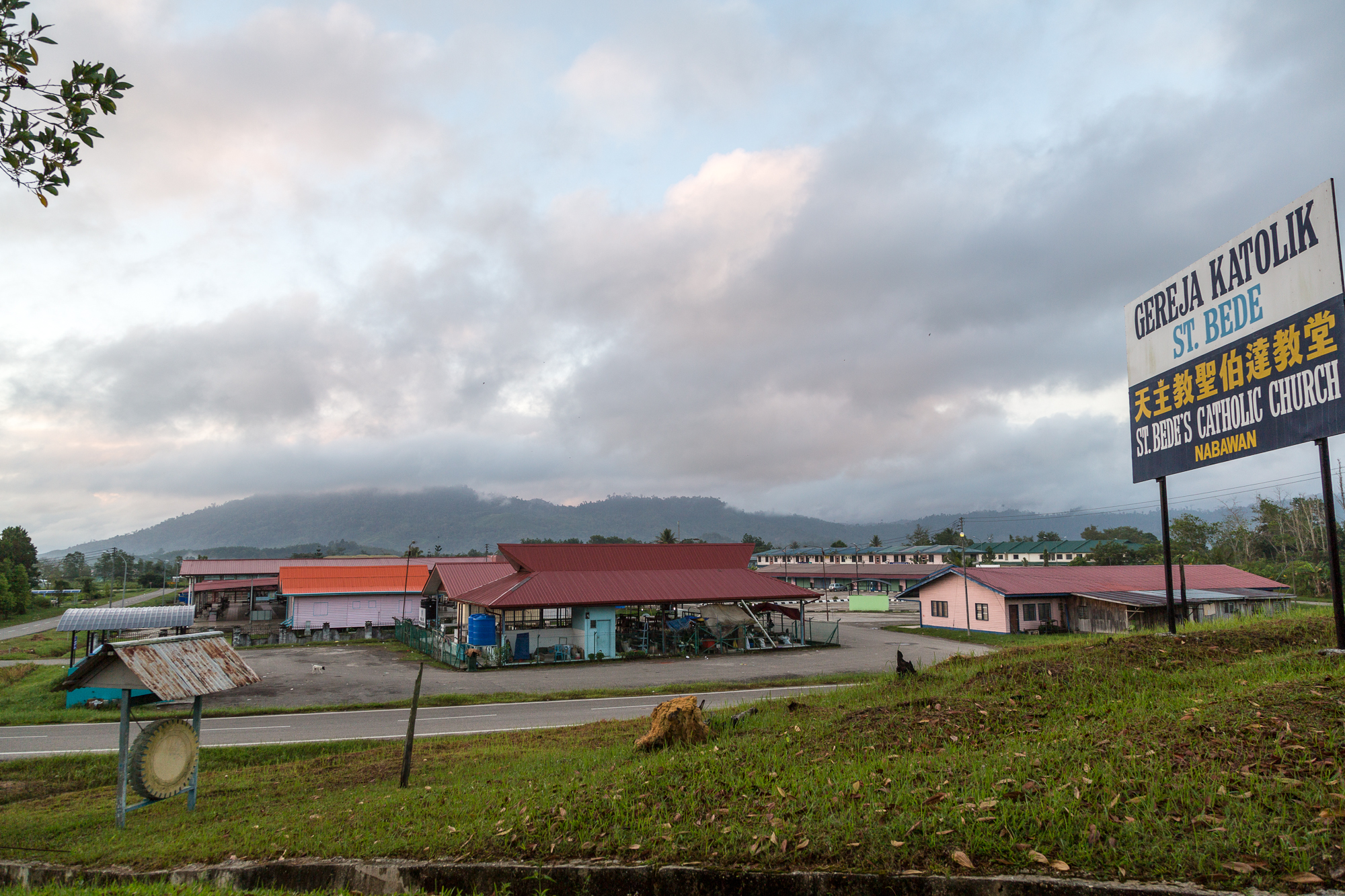 Nabawan, Sabah: Overview over the town center (Peken Nabawan)